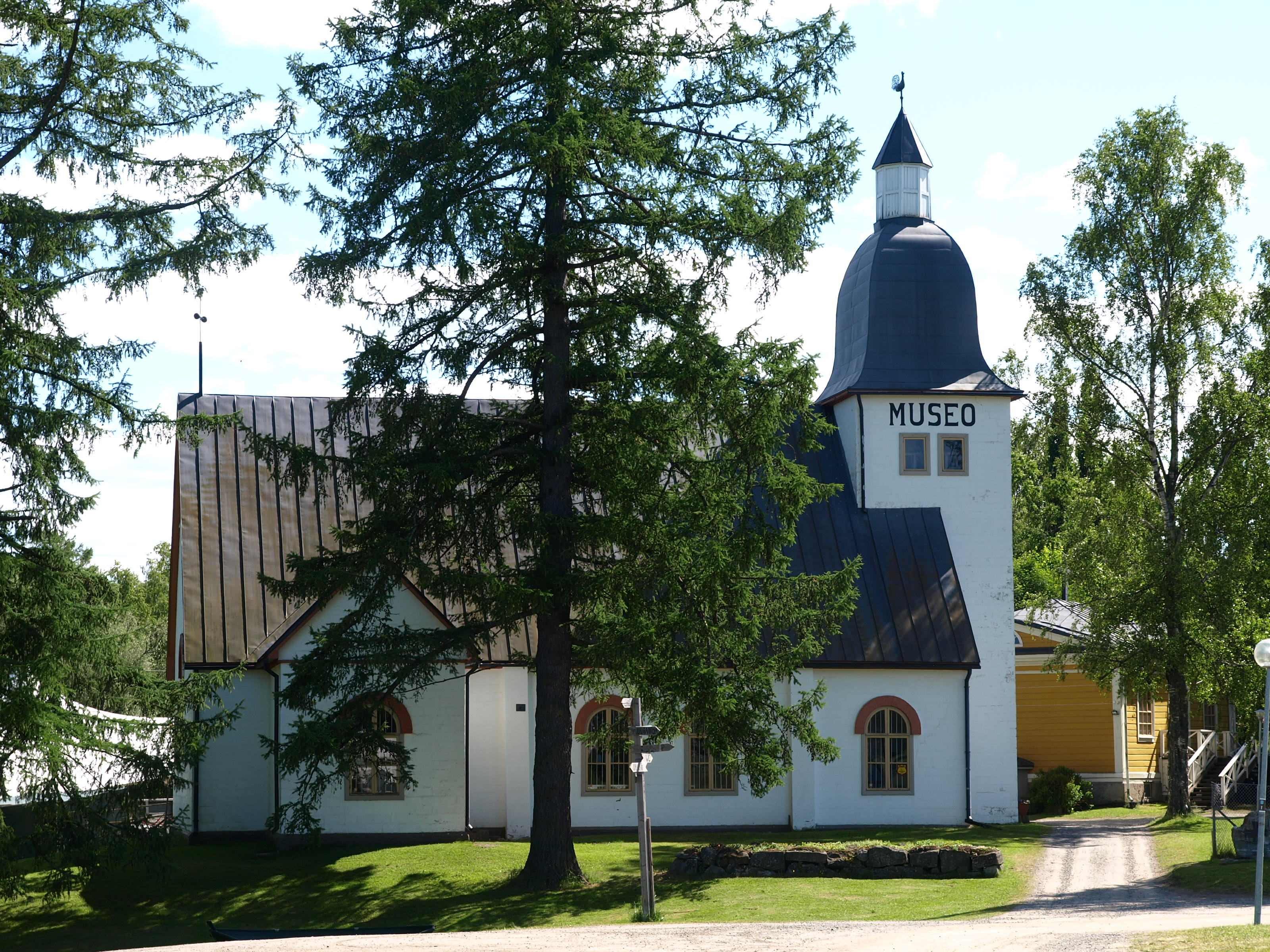 A museum in Ilmajoki, Finland.